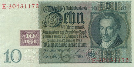 10 reichsmark with stamp.